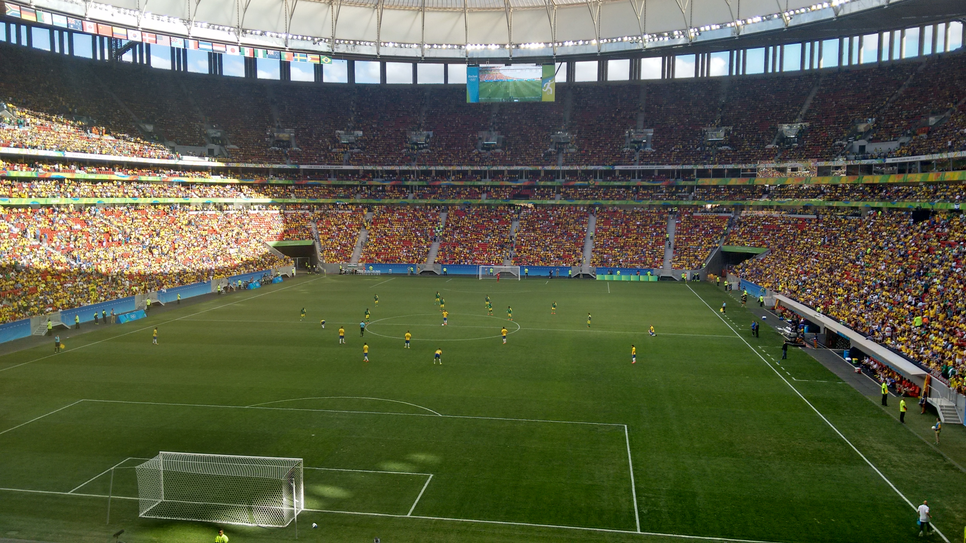 Brazil v South África match at the Rio 2016 men's football tournament in Brasília.